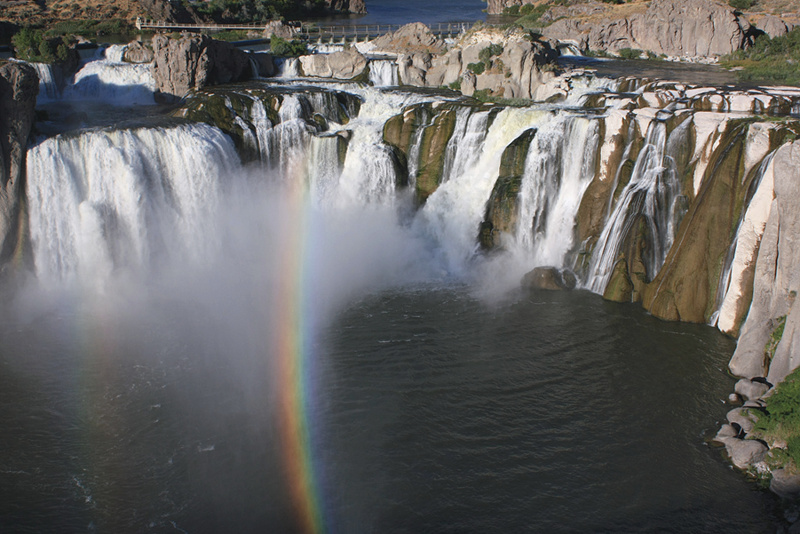 Shoshone Falls, Twin Falls County, Idaho, USA